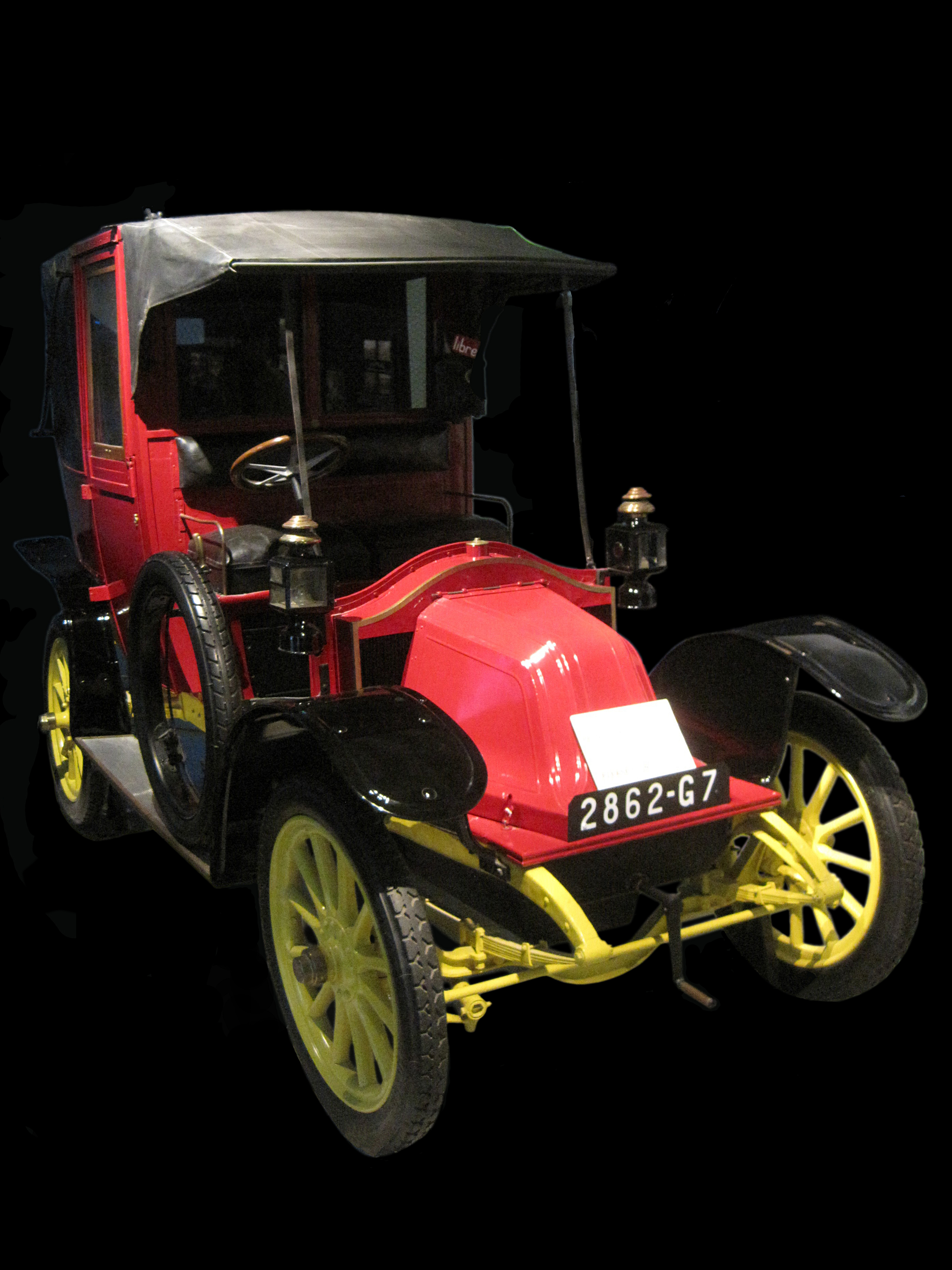 Renault Type AG-1 (G 7) (Taxis de la Marne) who had been requisitioned by the French army in September 1914 at the First Battle Marne and offered in 1922 Musée de l'Armée) in Paris.